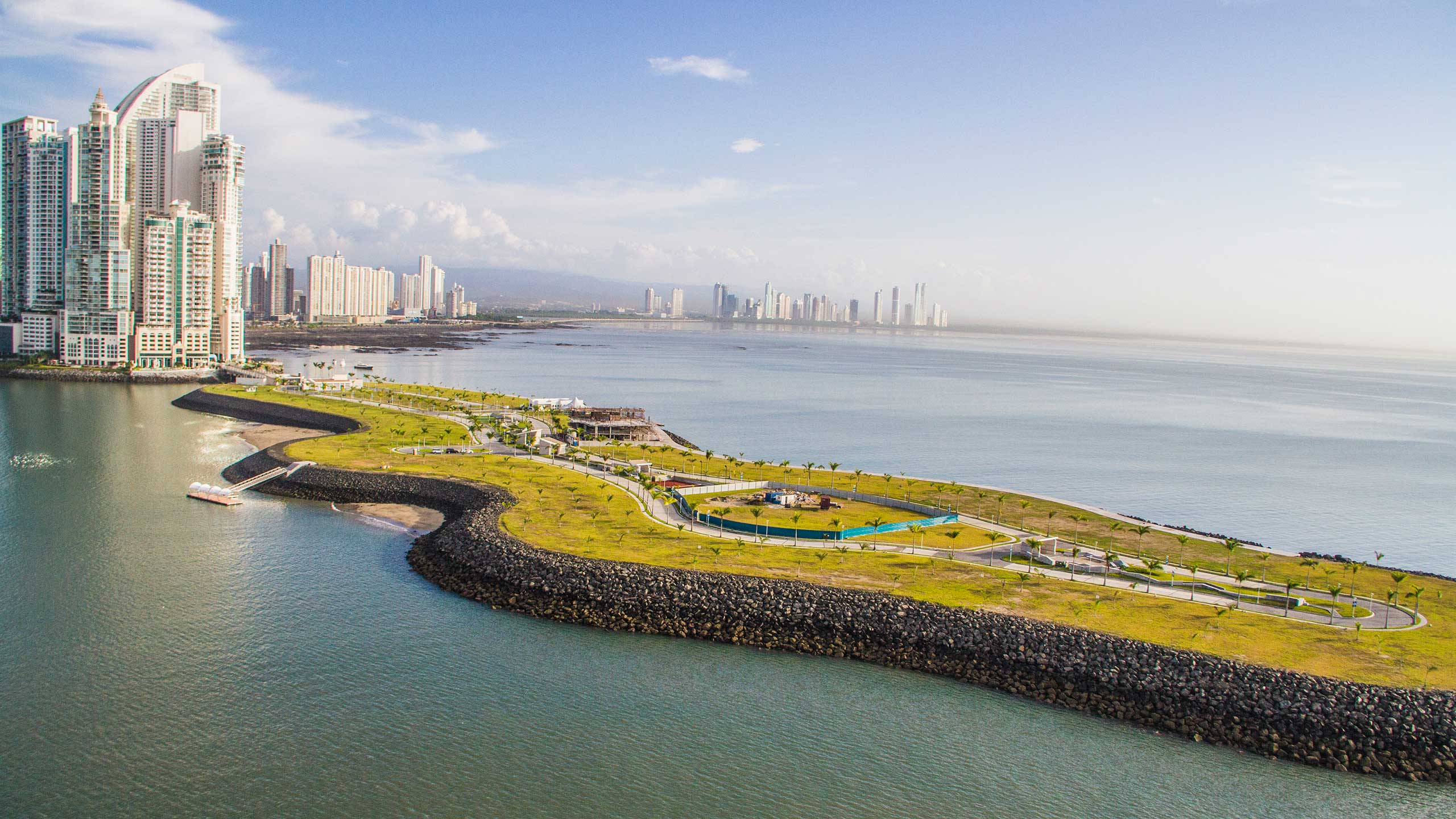 Ocean reef island